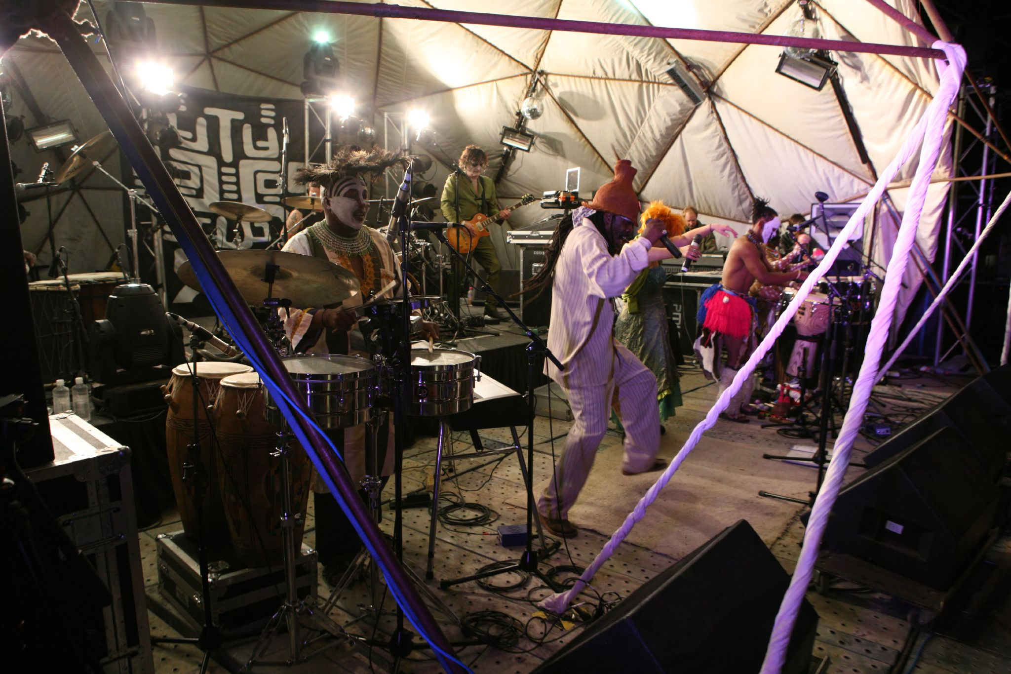 Juno Reactor performing live at Earthcore in Victoria, Australia.